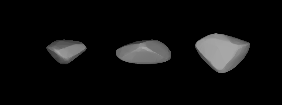 A three-dimensional model of 810 Atossa that was computed using light curve inversion techniques.